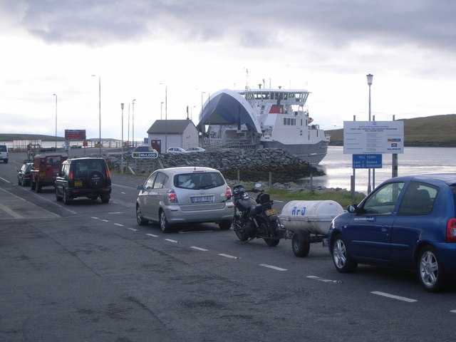 Queuing for the Toft to Ulsta ferry across Yell Sound